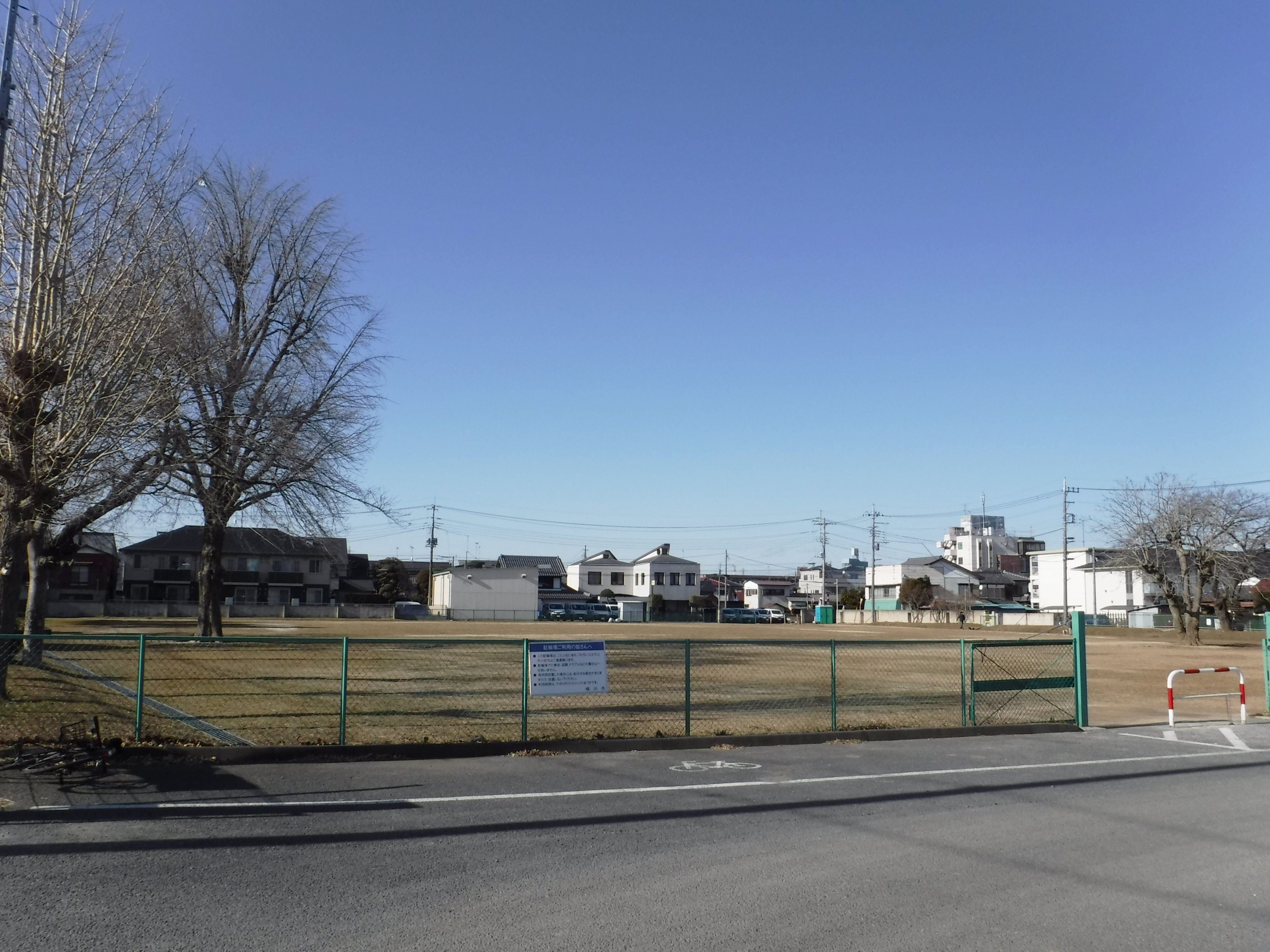 Kotobuki Square, former site of Okegawa Minami Elementary School, located in Okegawa, Saitama, Japan.